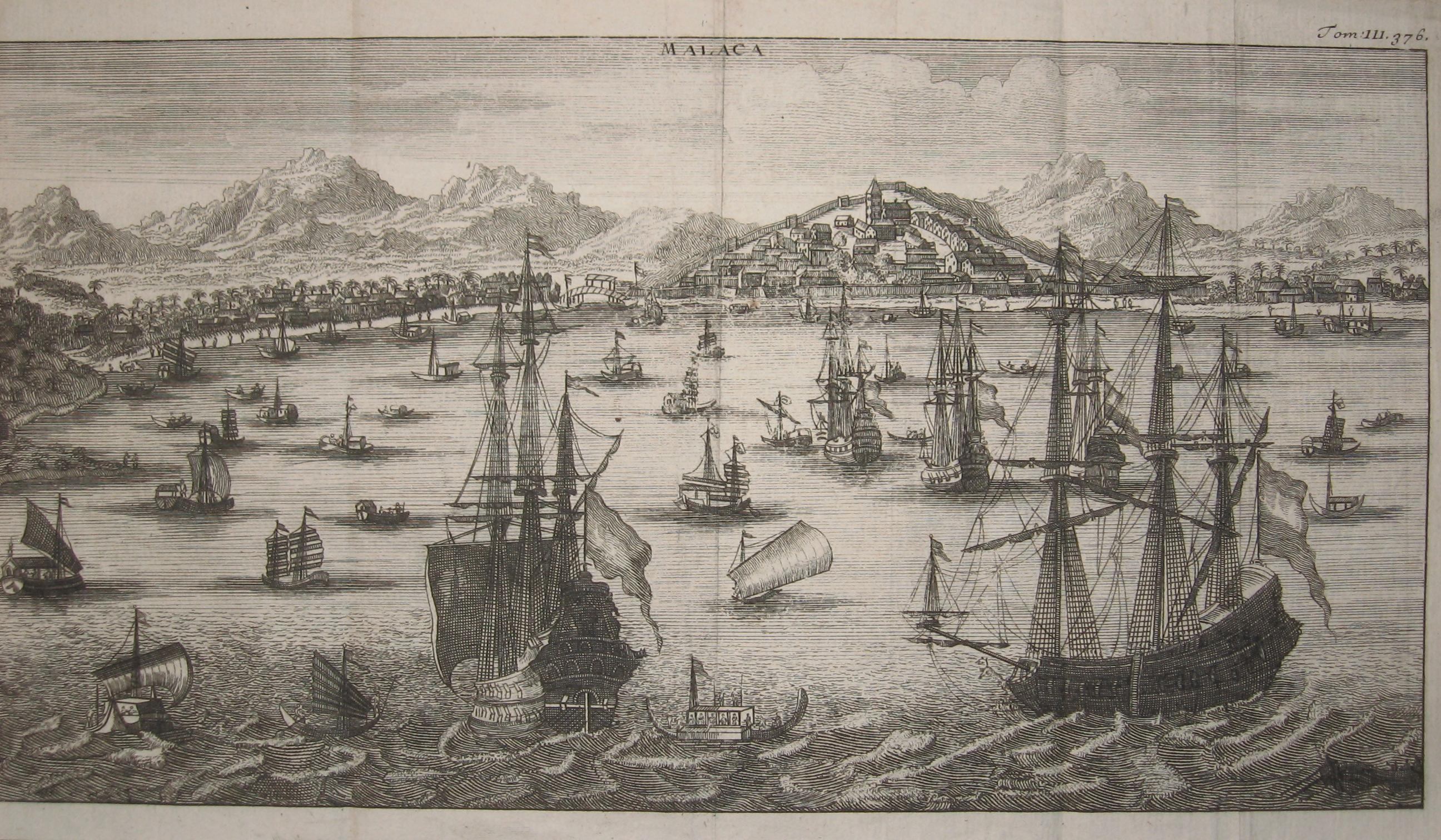 De stad Malacca: Dutch Ships in Malacca Harbor; etching, copper plate; Schouten, Wouter; 1676